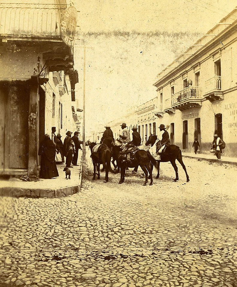 Salta. Calle Florida, casa de Leguizamón. Fines del siglo XIX.